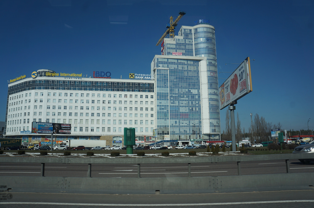 Charkivska Square in Kyiv